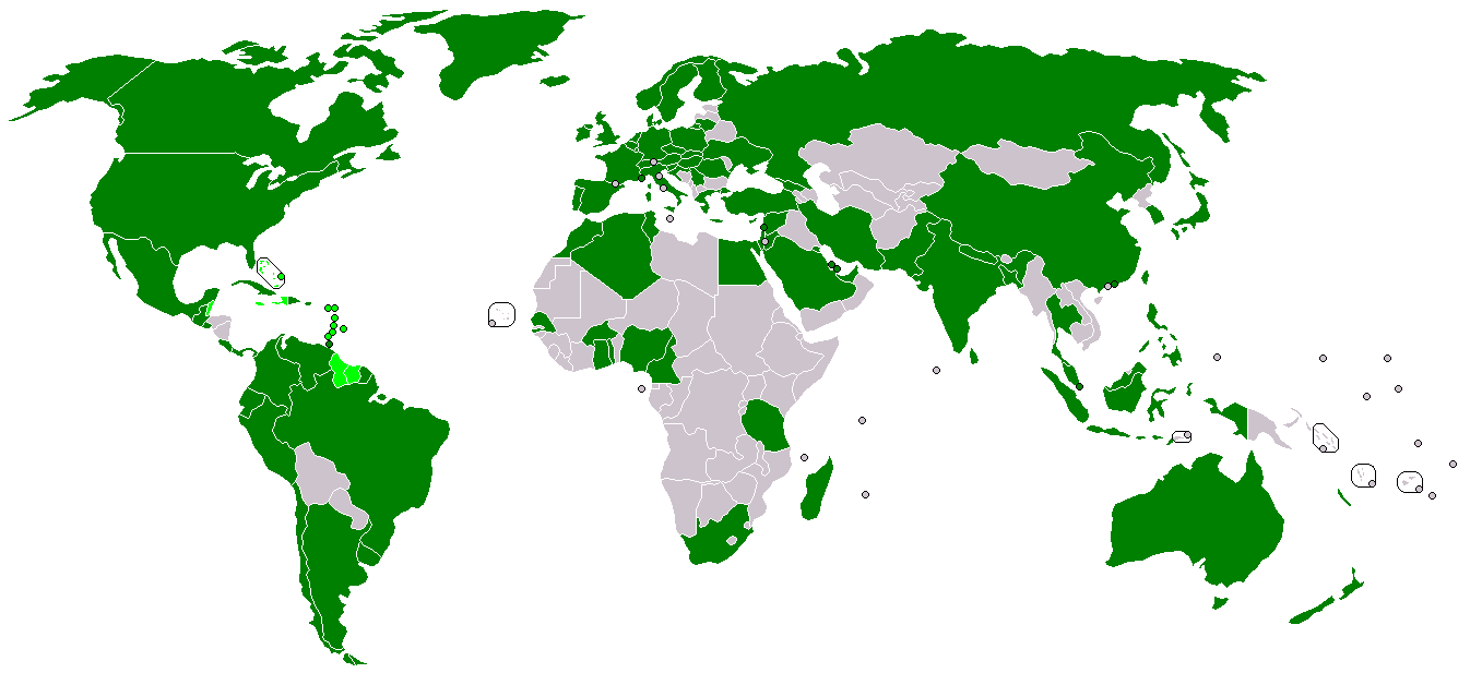 International Chamber of Commerce (ICC)